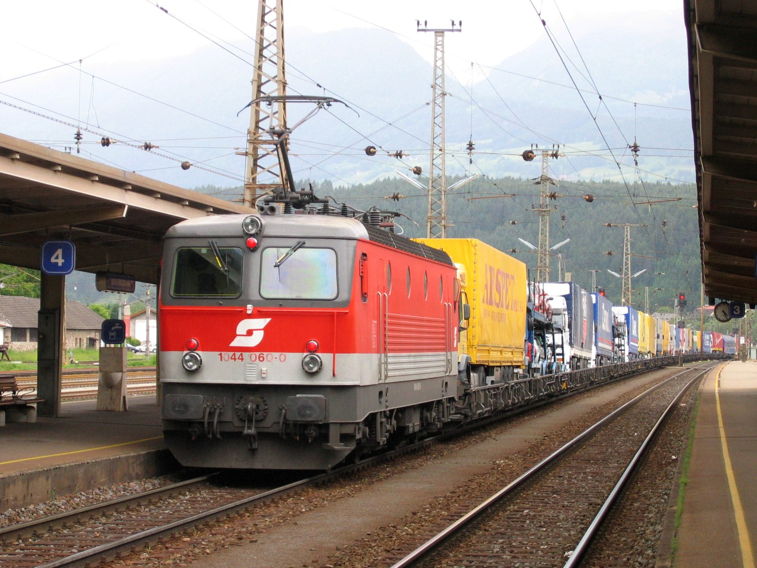 en: ÖBB 1044 060-0 providing banking service behind a combined traffic train from the Tauern line, entering Spittal am Milstättersee station in Carinthia. de: ÖBB 1044 060-0 als Schiebelok hinter einem Zug der "Rollenden Landstraße" von der Tauernbahn im Bahnhof Spittal am Millstättersee in Kärnten. ro: ÖBB 1044 060-0 ca locomotiva impingatoare intra cu un tren RoLa dinspre linia Tauern in statia Spittal am Millstättersee din landul Carinthia.